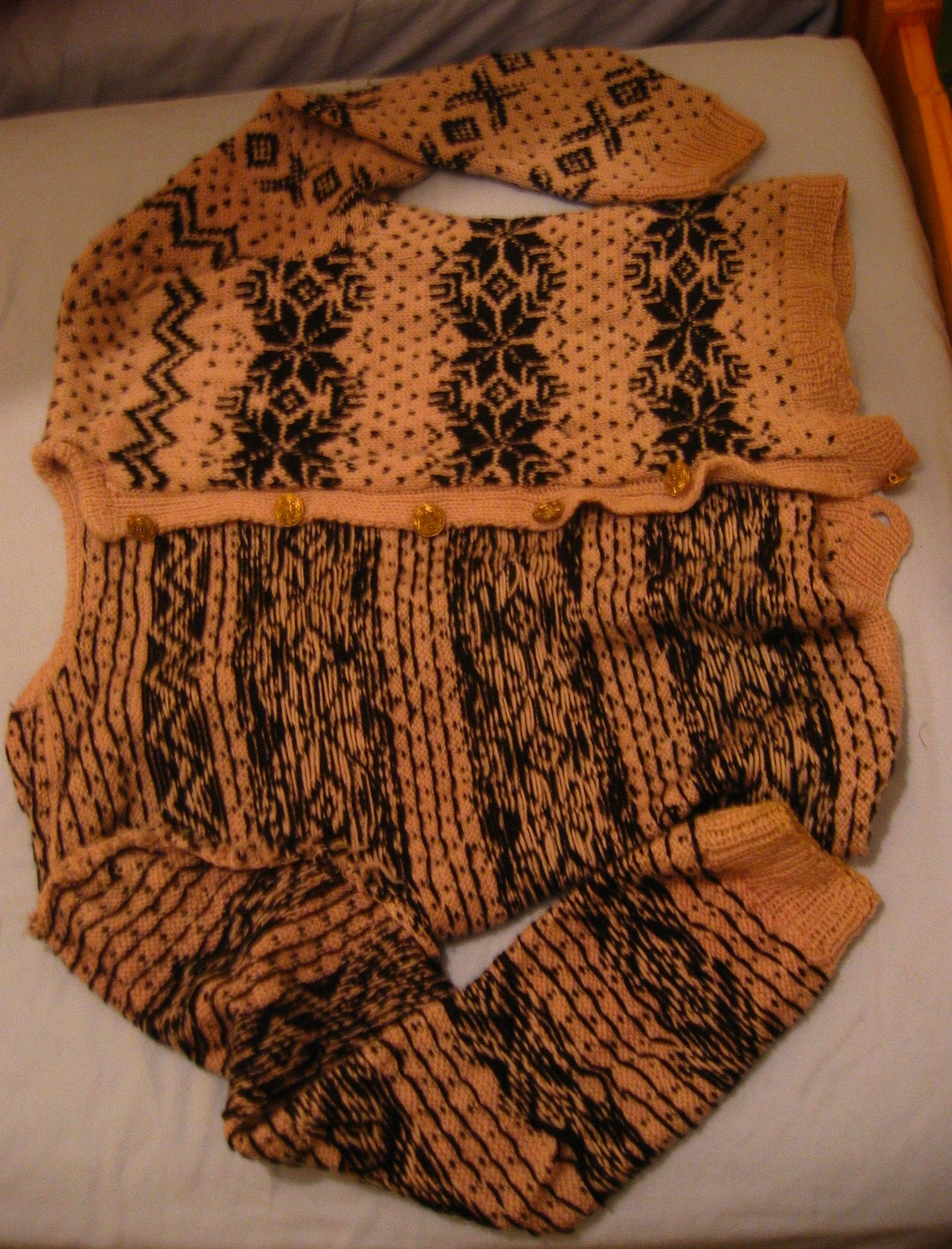 Norwegian knitted jacket showing the right side in the background and the wrong side in the foreground.